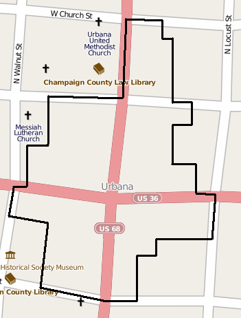 Map showing the boundaries of the Urbana Monument Square Historic District in Urbana, Ohio, United States. The historic district is listed on the National Register of Historic Places. Boundaries are derived from the National Register District Address Finder maintained by the Ohio Historical Society.